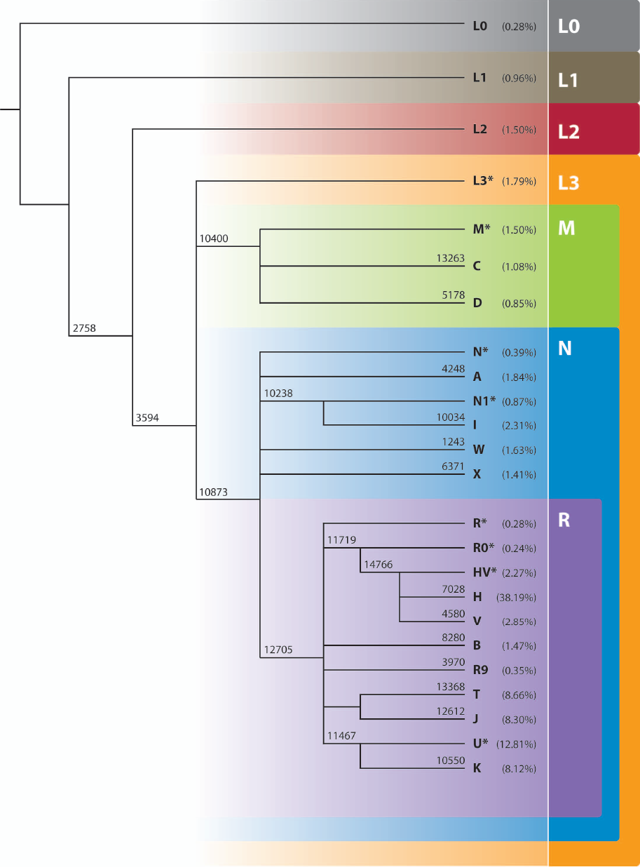 The Phylogeny of mtDNA Haplogroups Inferred from the Panel of 22 Coding-Region SNPs Used in the Genographic Project. The coding-region mutations are shown on the branches. The frequencies of the haplogroups found among the Genographic participants are shown in brackets beside the Hgs assignments and correspond to Table 2. Note that the figure discriminates between haplogroups L0 and L1 while the coding-region SNPs used during genotyping do not distinguish the two and therefore they are labeled throughout the paper as L0/L1.